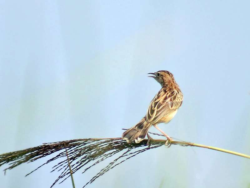 Zitting Cisticola Cisticola juncidis in Kolkata, West Bengal, India.